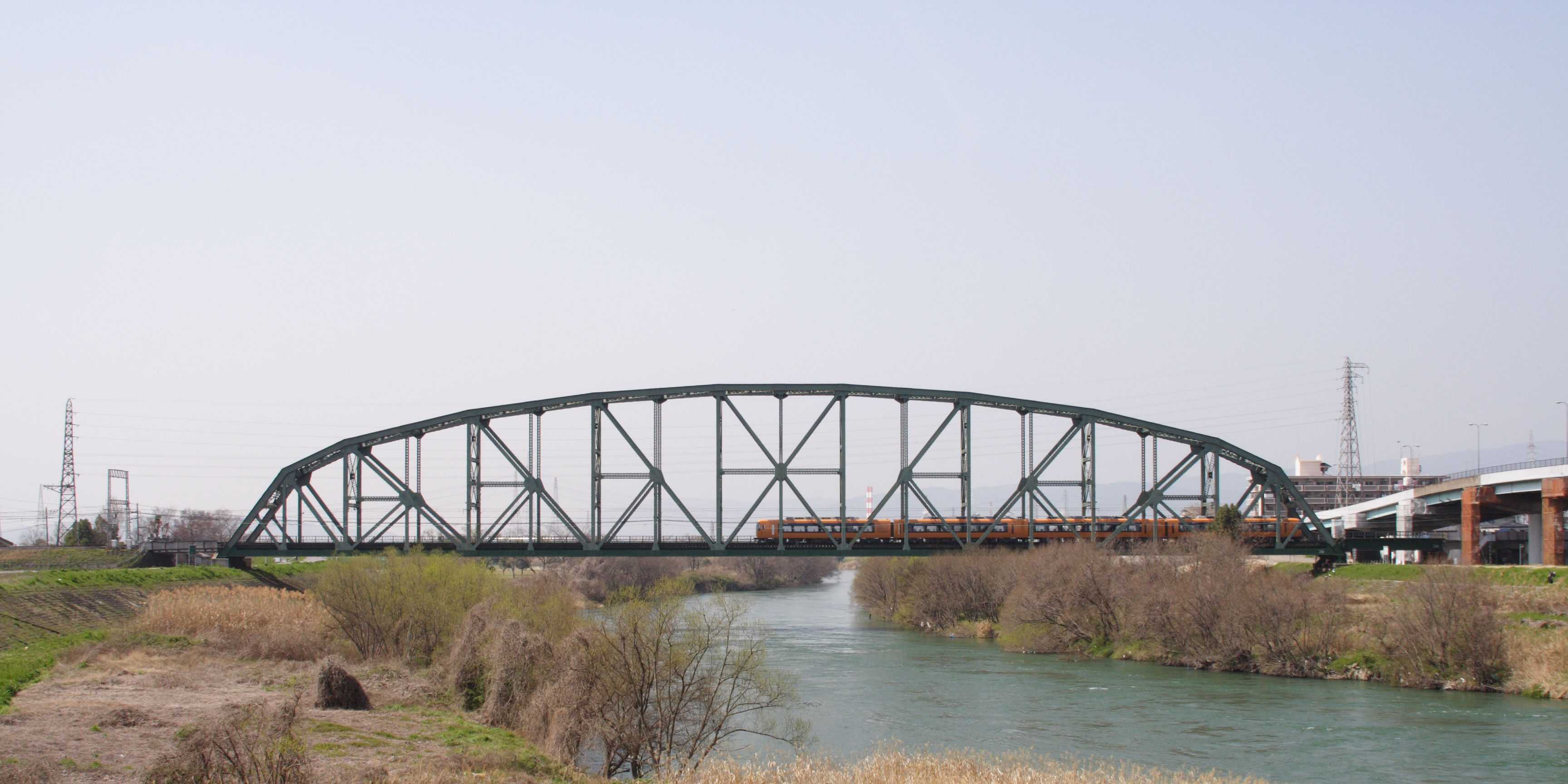 Yodogawa Railway Bridge of Kintetsu Kyoto line (over Uji River) (Kyoto, Japan). Yodogawa Kyôryô railway bridge of Kintetsu Kyoto Line was built in 1928 over Uji River. This bridge is the longest simple truss bridge in Japan.